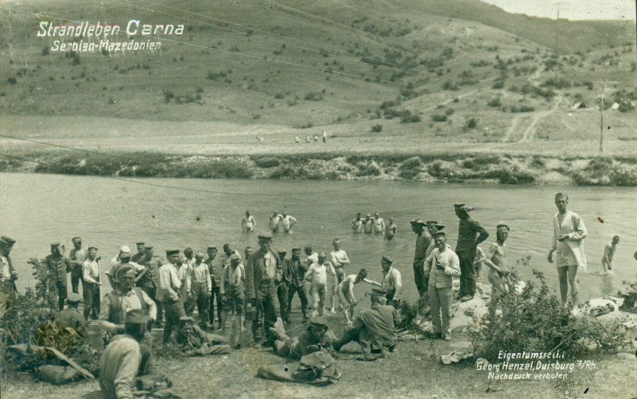 German soldiers on Crna River in Macedonoia during WWI